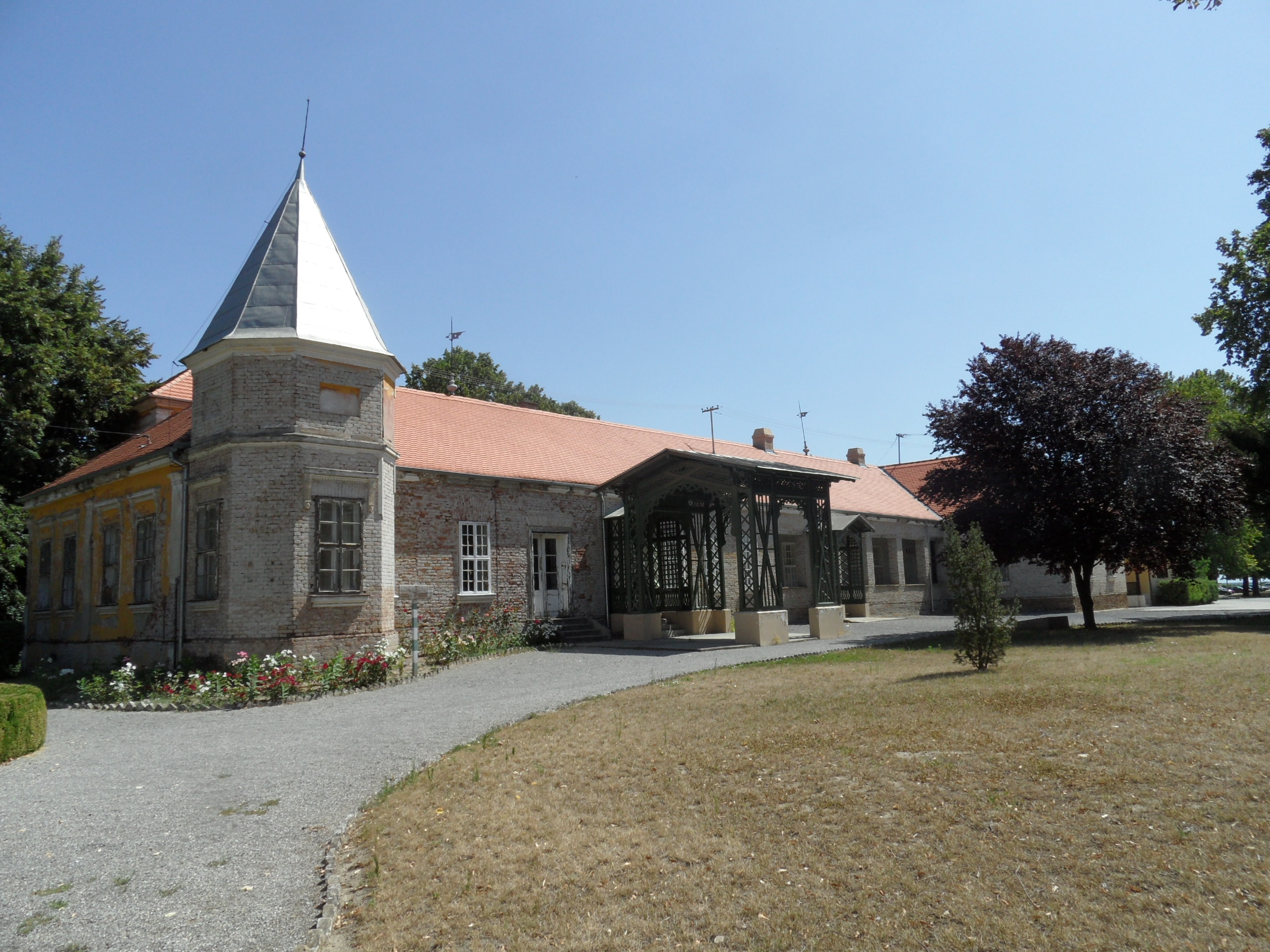 Erdut, Croatia, Castle of Adamovich-Cseh, Place where there treaty of Erdut was signed in 1995 ending the war in Croatia